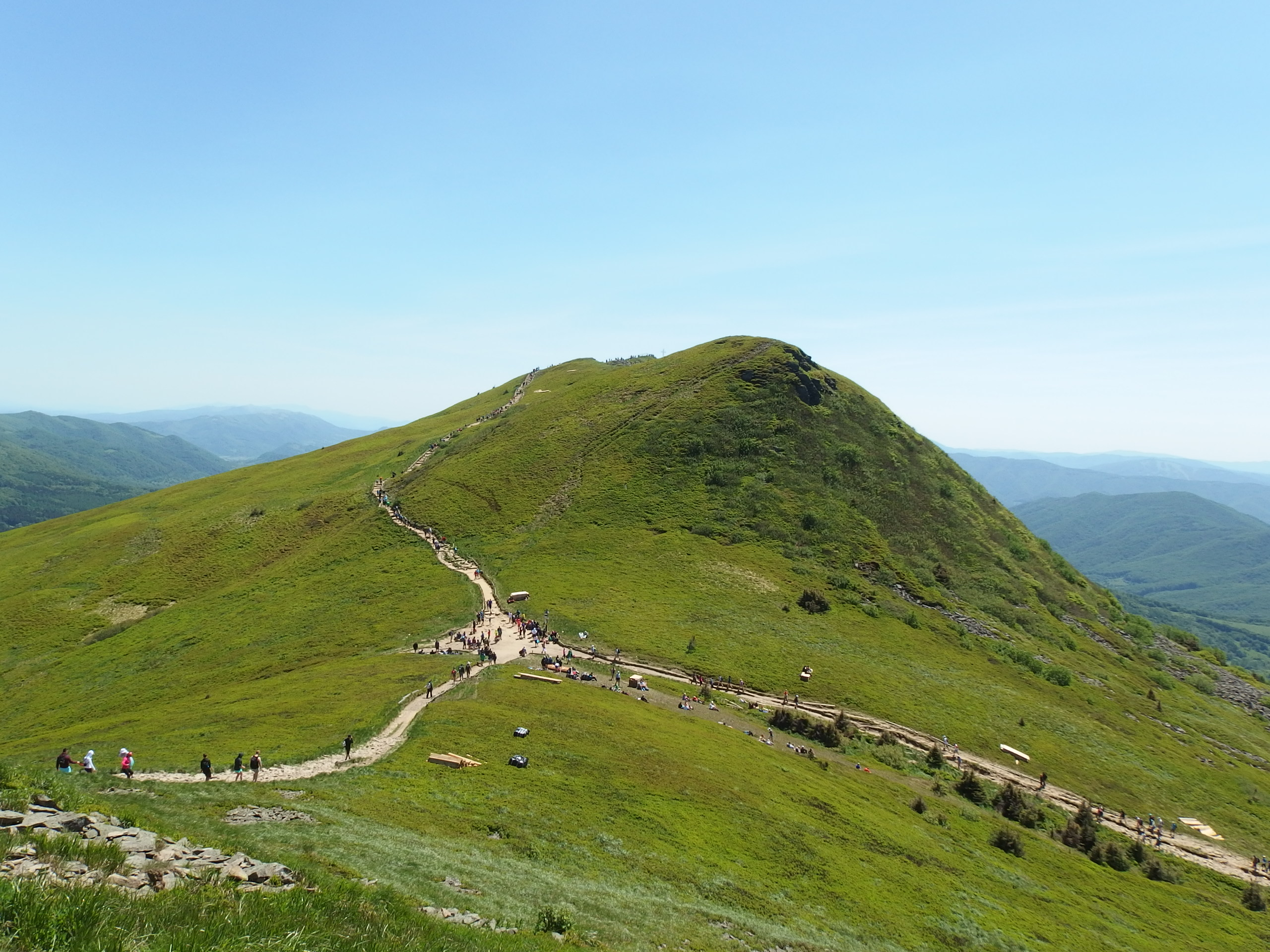 View on Tarnica from Szeroki Wierch